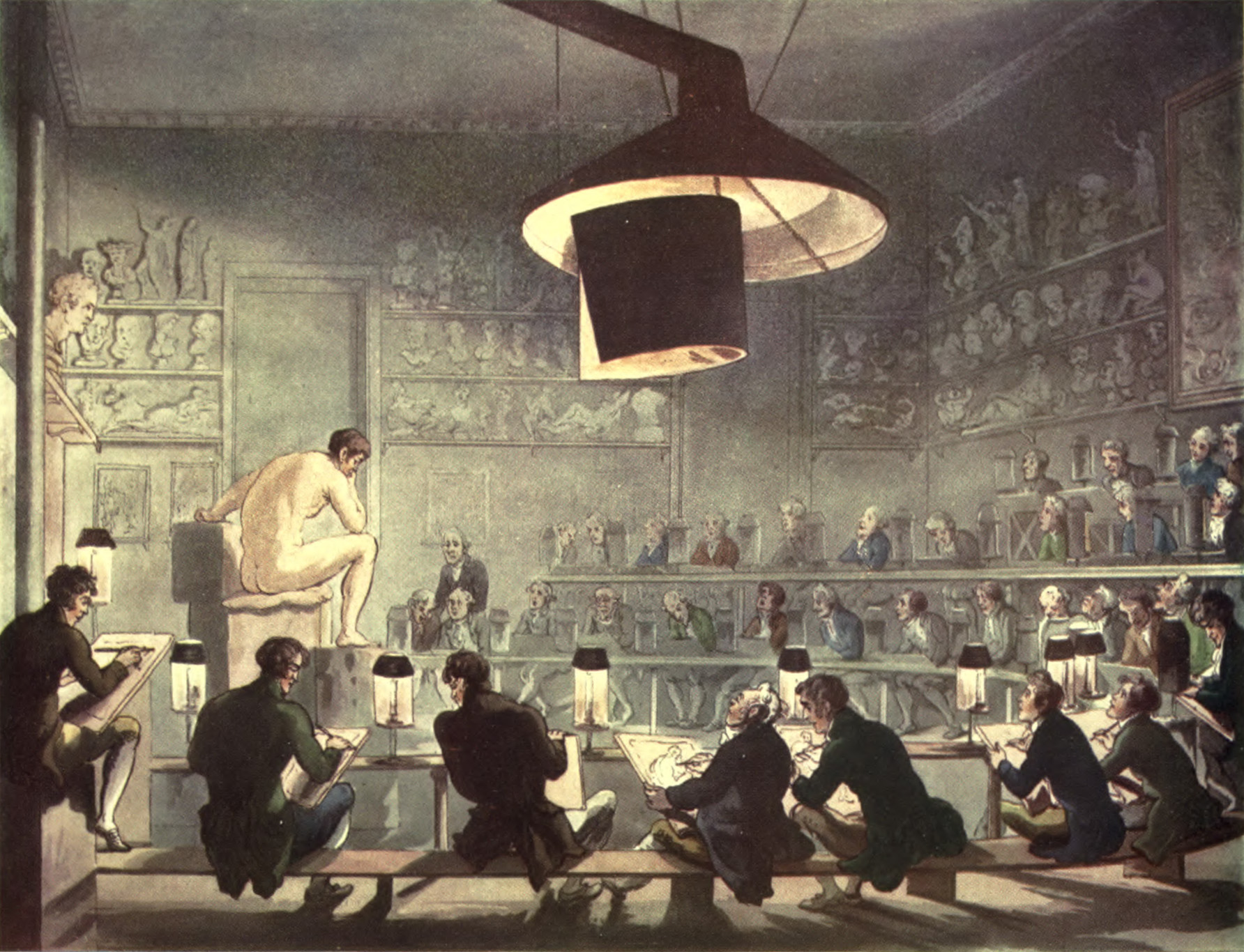 Drawing from Life at the Royal Academy